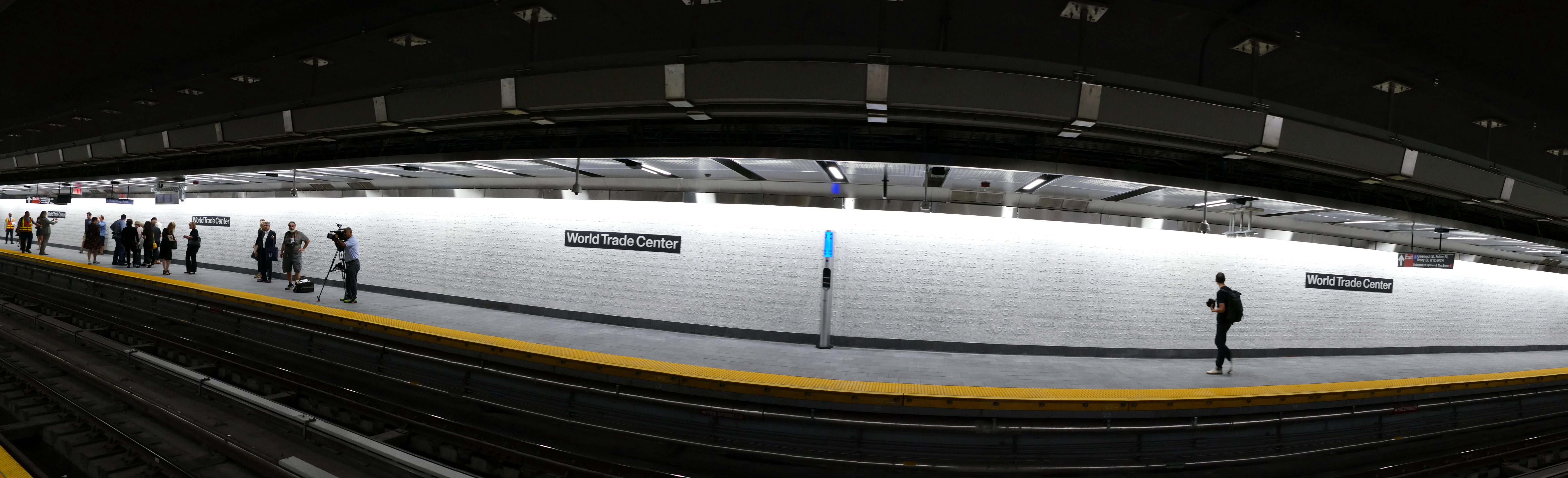 Reopening of the WTC/Cortlandt Station on the 1 Line